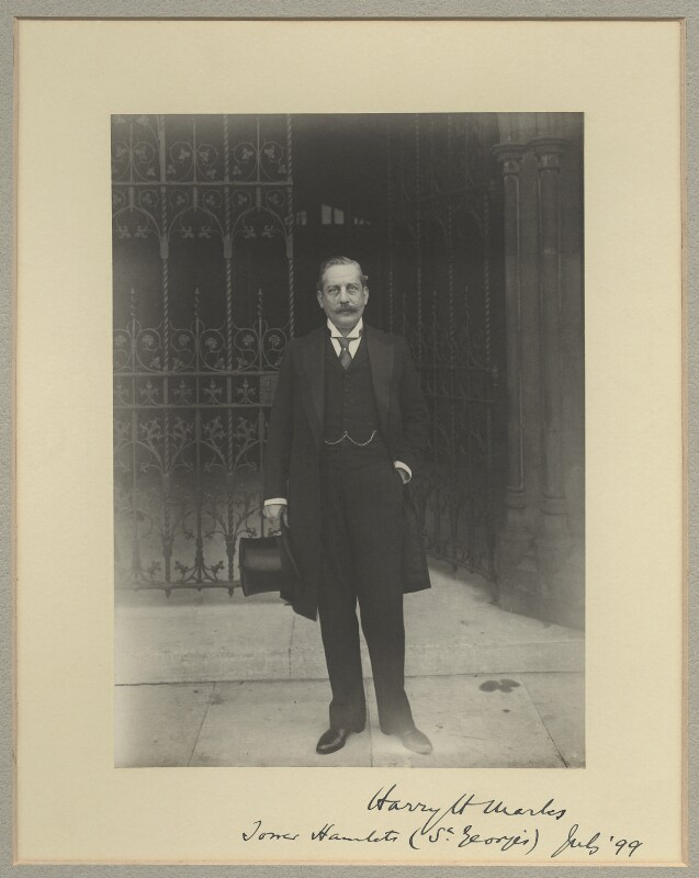 Harry Hananel Marks (9 April 1855 – 21 December 1916), a British politician and journalist. Photographed in 1899